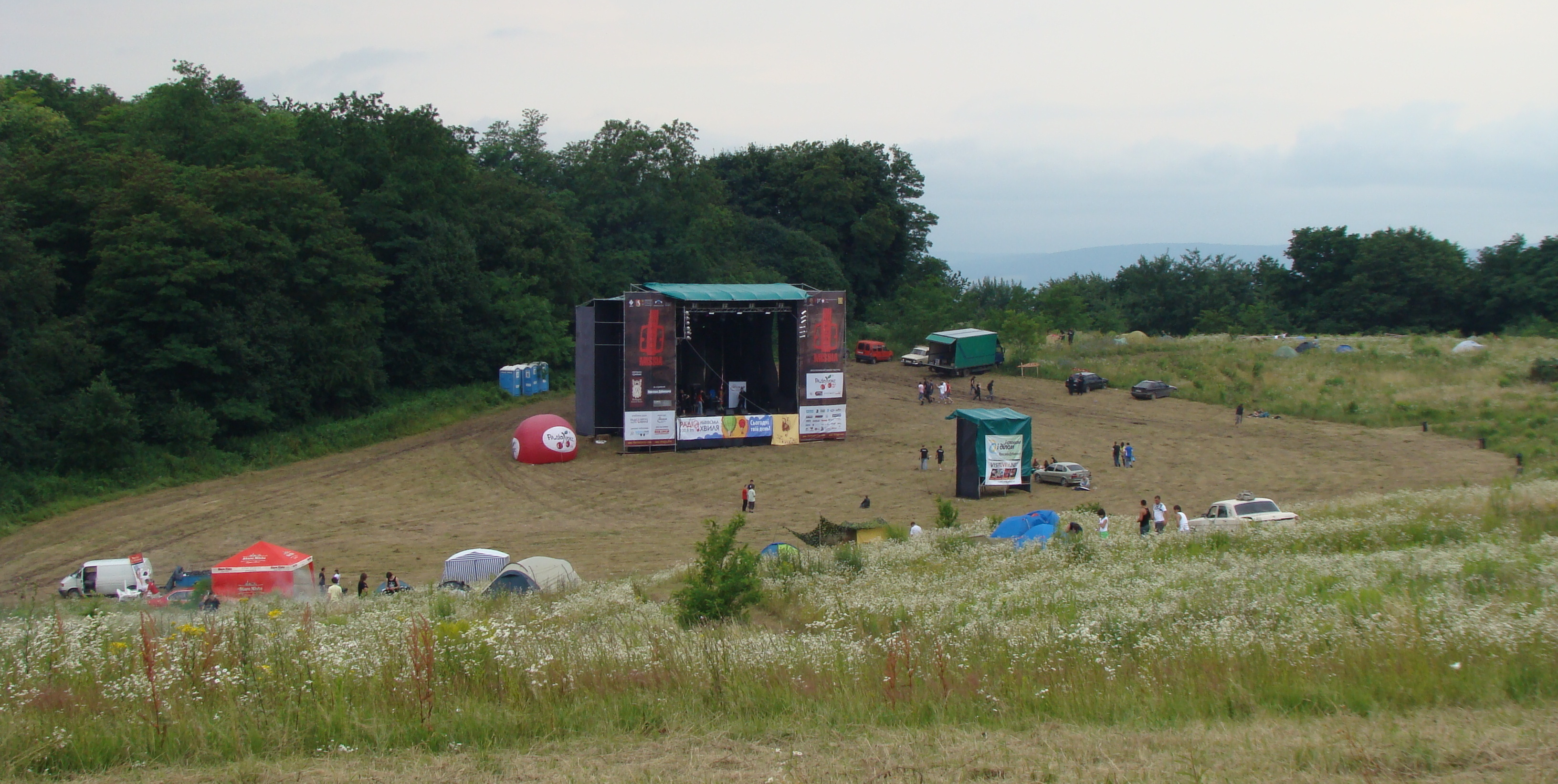 Fort.Missia Festival 2011, the big stage in morning.